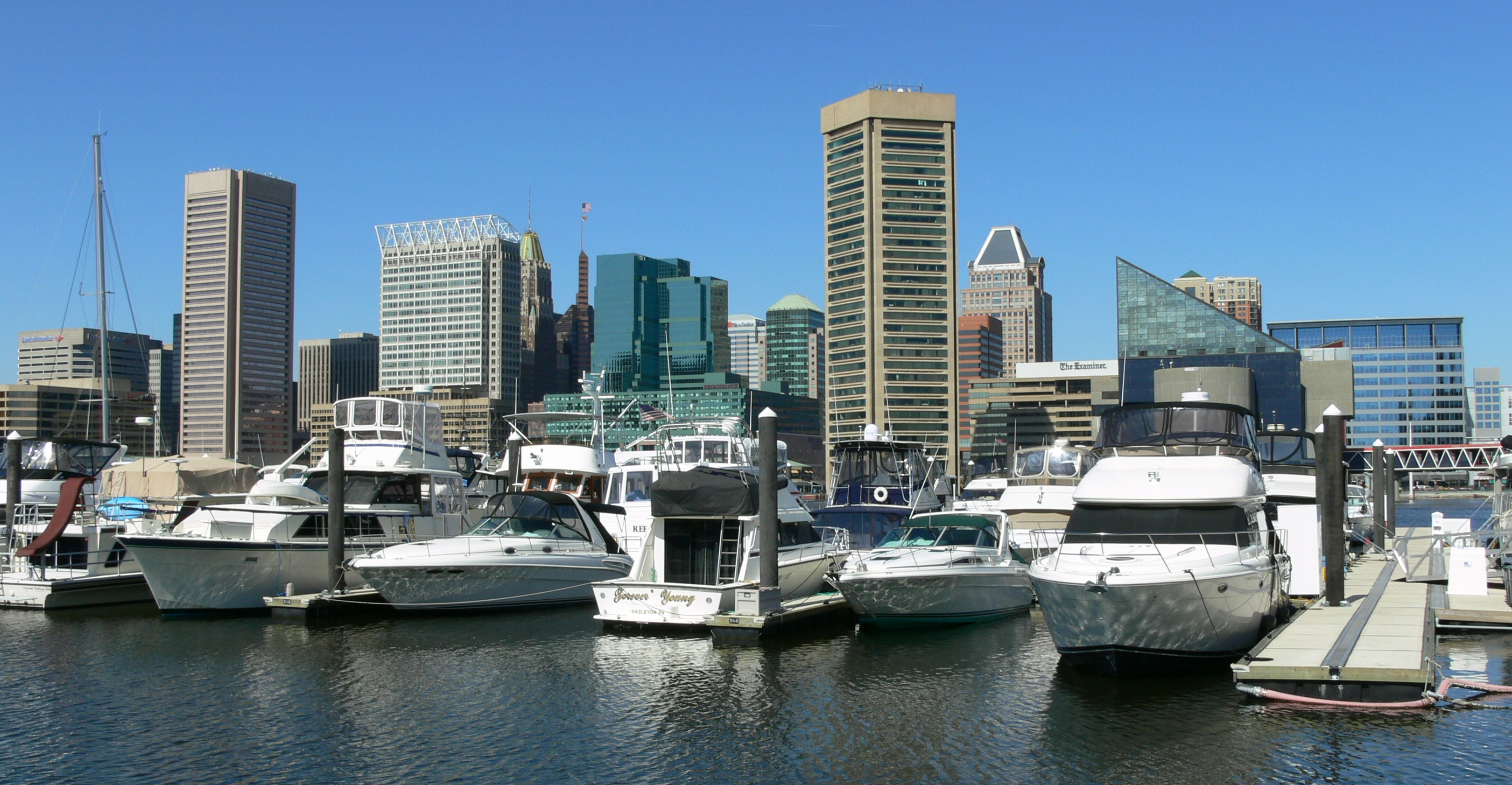 A shot of Baltimore from the southeast corner of the Inner Harbor right by The Rusty Scupper.